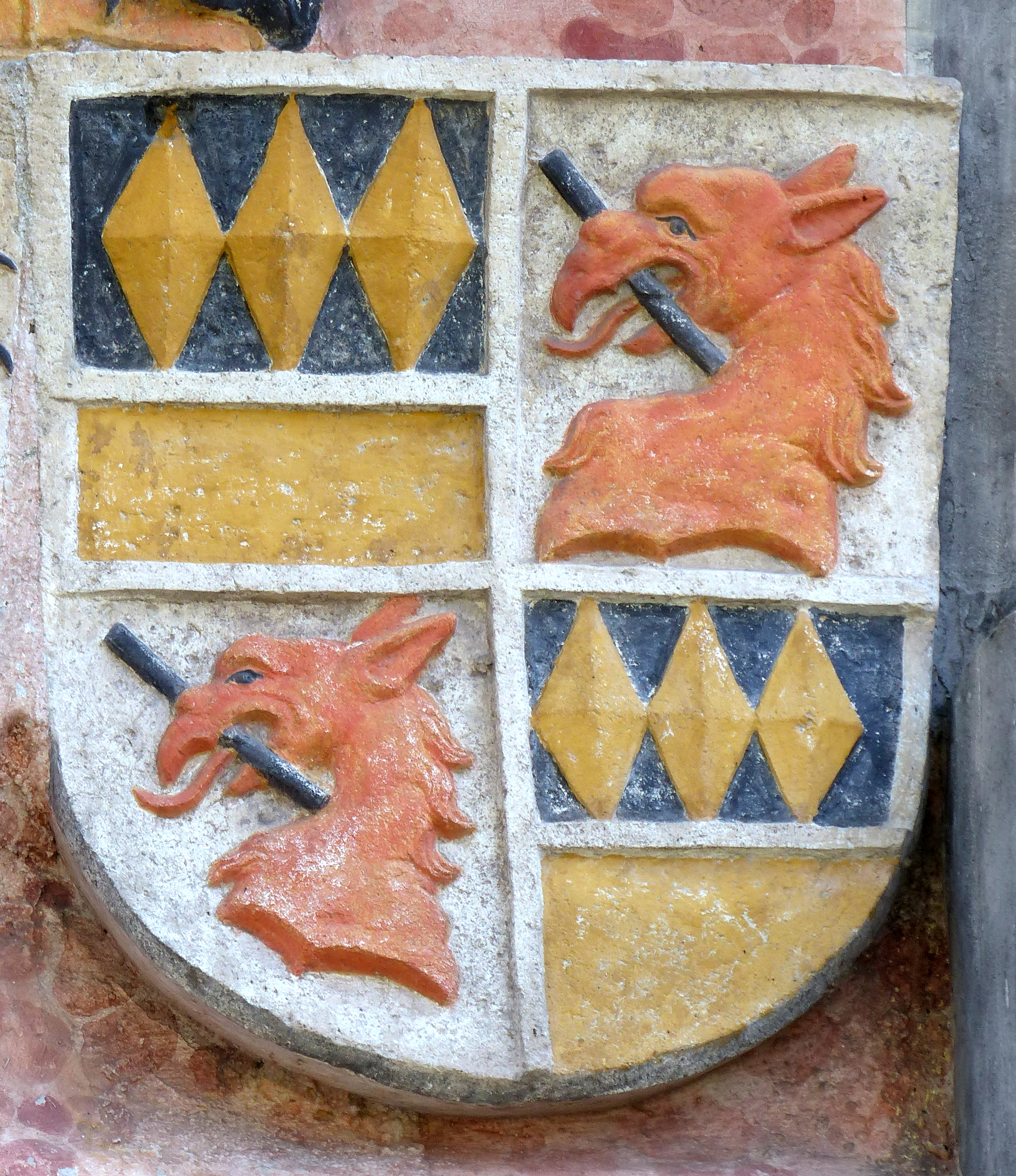 Obernzell ( Lower Bavaria ). Castle ( 1583 ) - Coats of arms of Urban of Trennbach, prince-bishop of Passau, who changed the medieval castle into a renaissance palace.This is a photograph of an architectural monument.